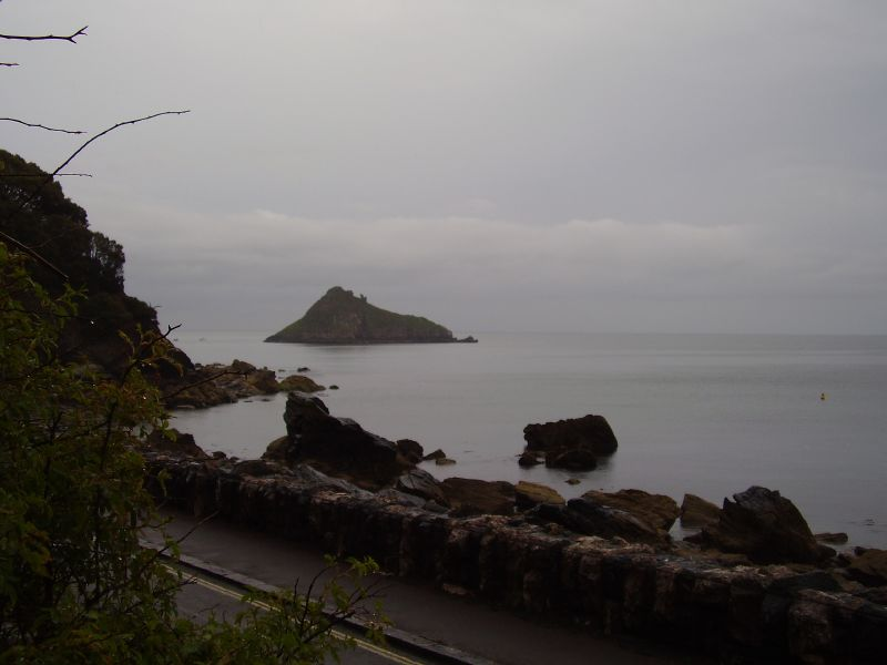 Thatcher Rock; which looks for some people like something (e.g. like Kirrin Island) out of Enid Blyton's Books!